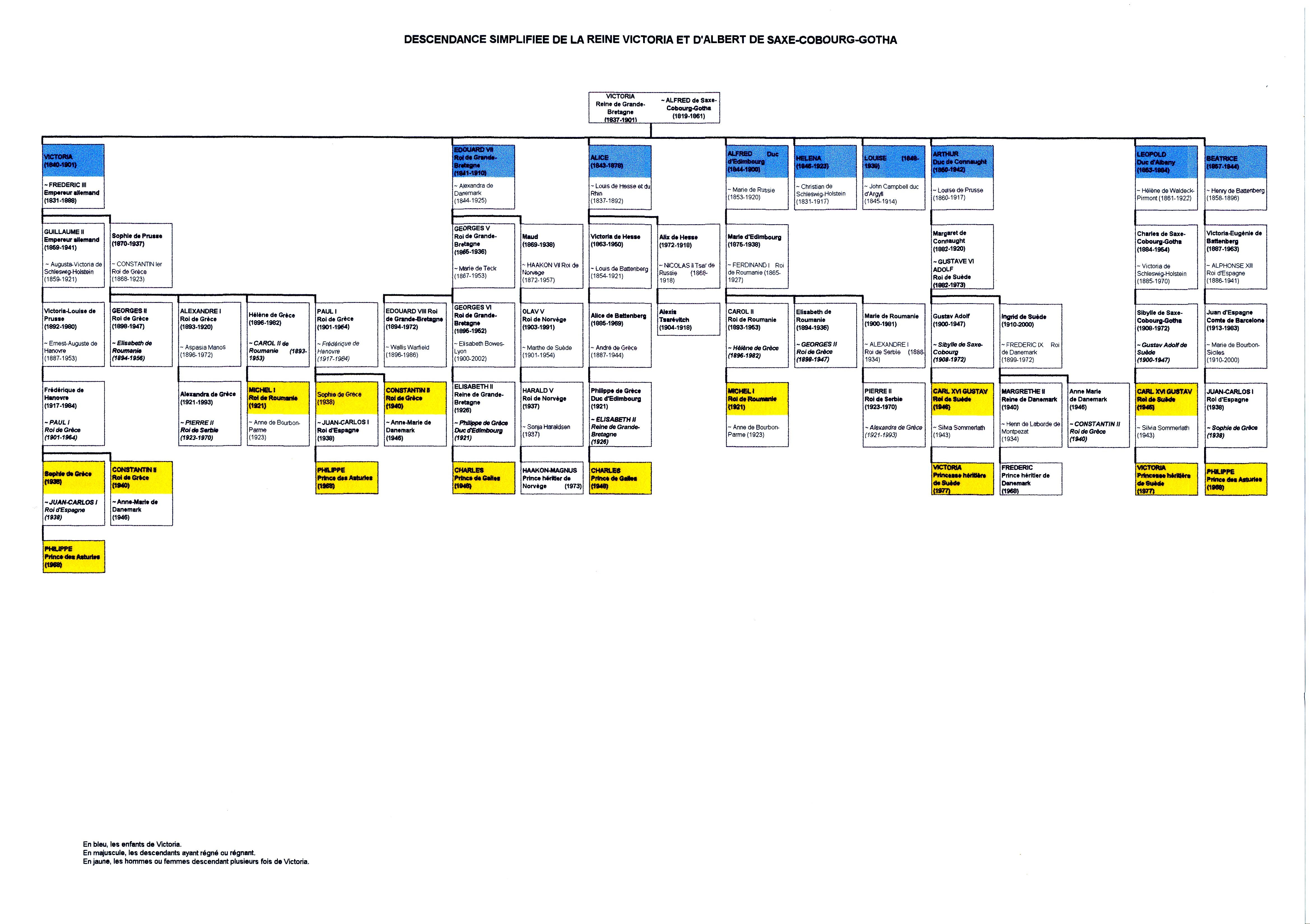 Simplified genealogy of Queen Victoria's descendants, members of royal families